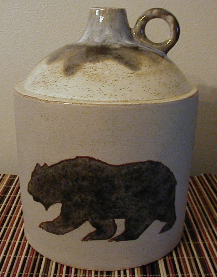 WHISKY JUG MADE FROM CLAY AND SPECIAL GLAZES. MY OWN DESIGN